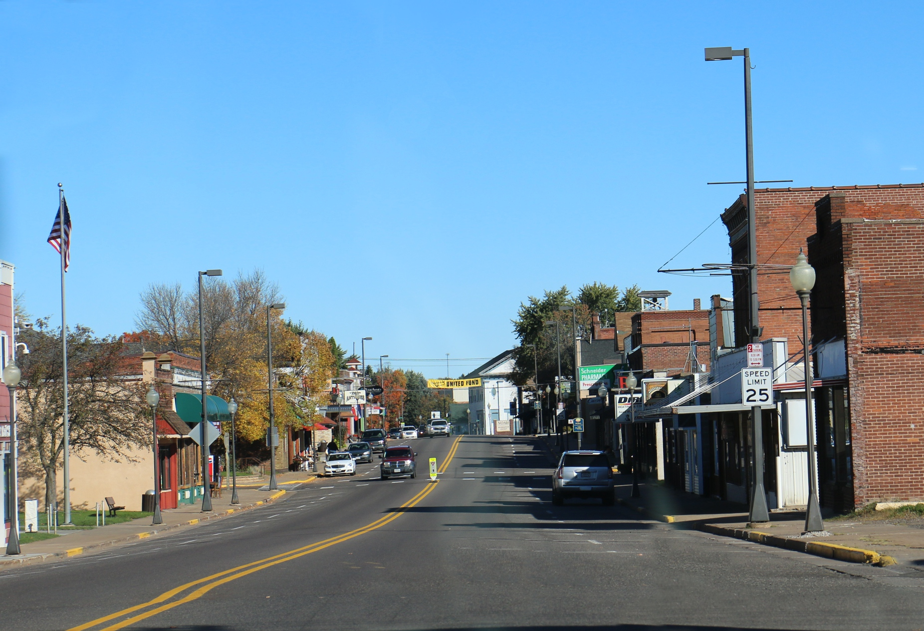 Downtown Cumberland, Wisconsin on US63